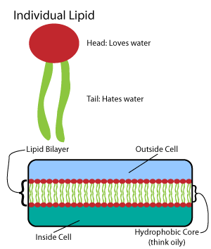 This is an introduction to the concept of the lipid bilayer, the material that makes up cell membranes.